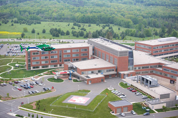 Aspirus MedEvac 650 landing at SCH